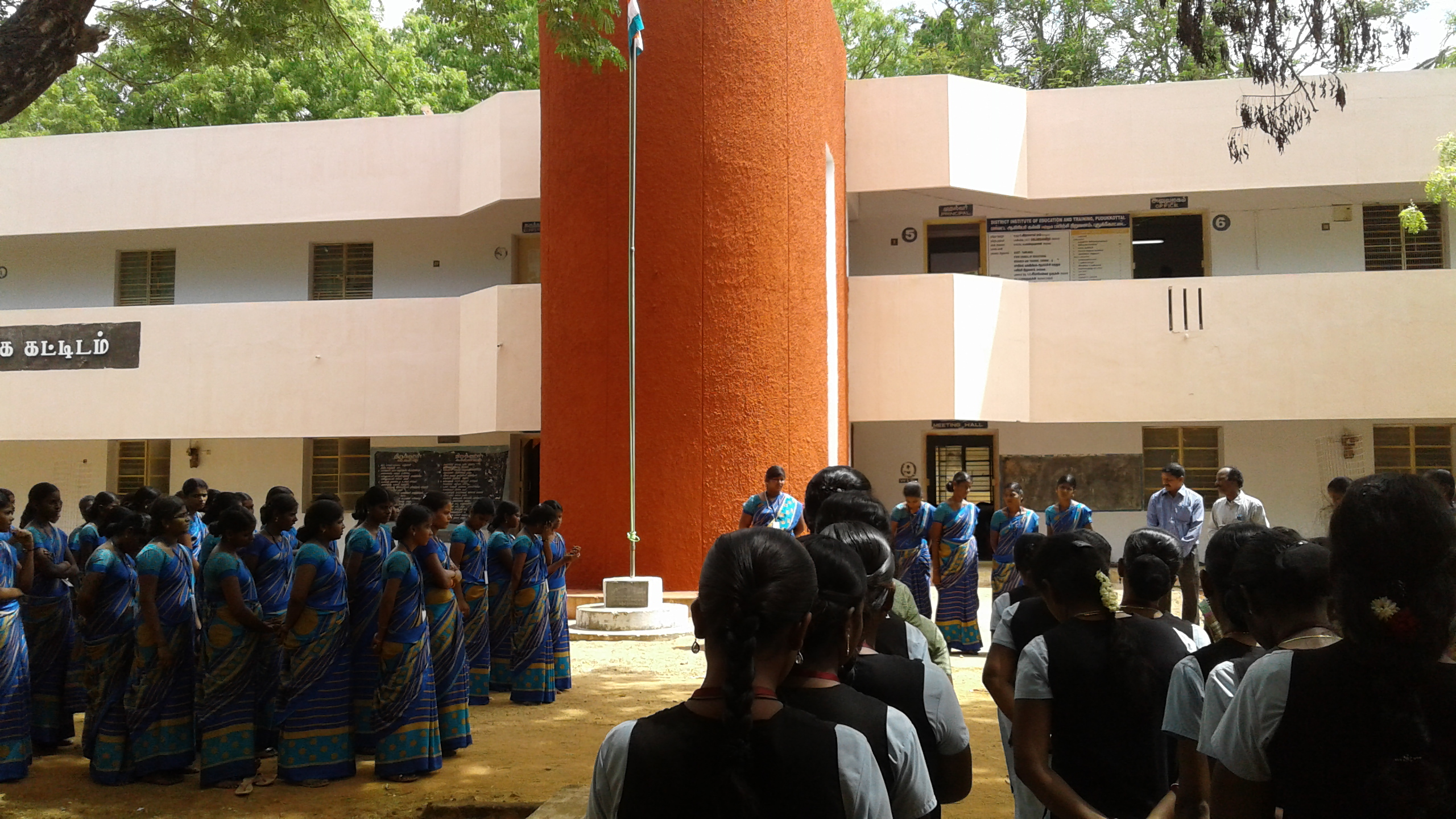 கல்வி செயற்கைகோள் கட்டிடம்